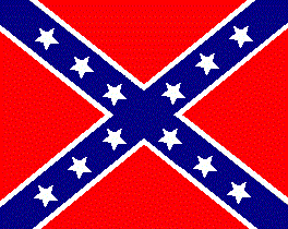 Flag of the Confederate States of America (May 1, 1863 – March 4, 1865). The second national flag of the Confederate States of America, also known as "The Stainless Banner", the "Jackson Flag", and the "White Man's Flag".